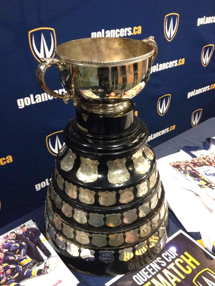 These images of the Queen's Cup during the 2014-15 season are taken by Devan Mighton.